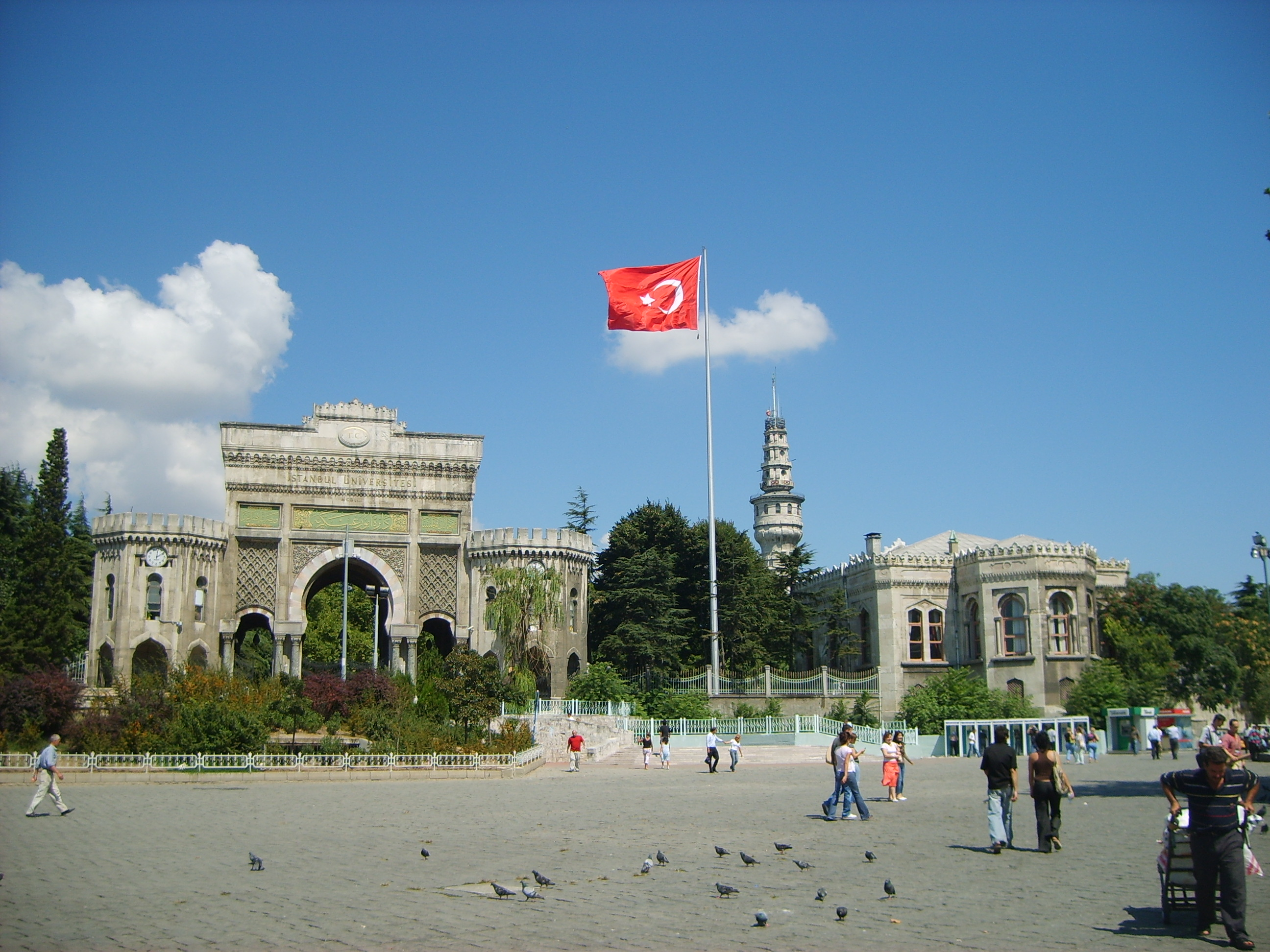 Main entrance gate of Istanbul University on Beyazıt Square which was known as Forum Tauri in the Roman period. Beyazıt Tower, located within the campus, is seen in the background.